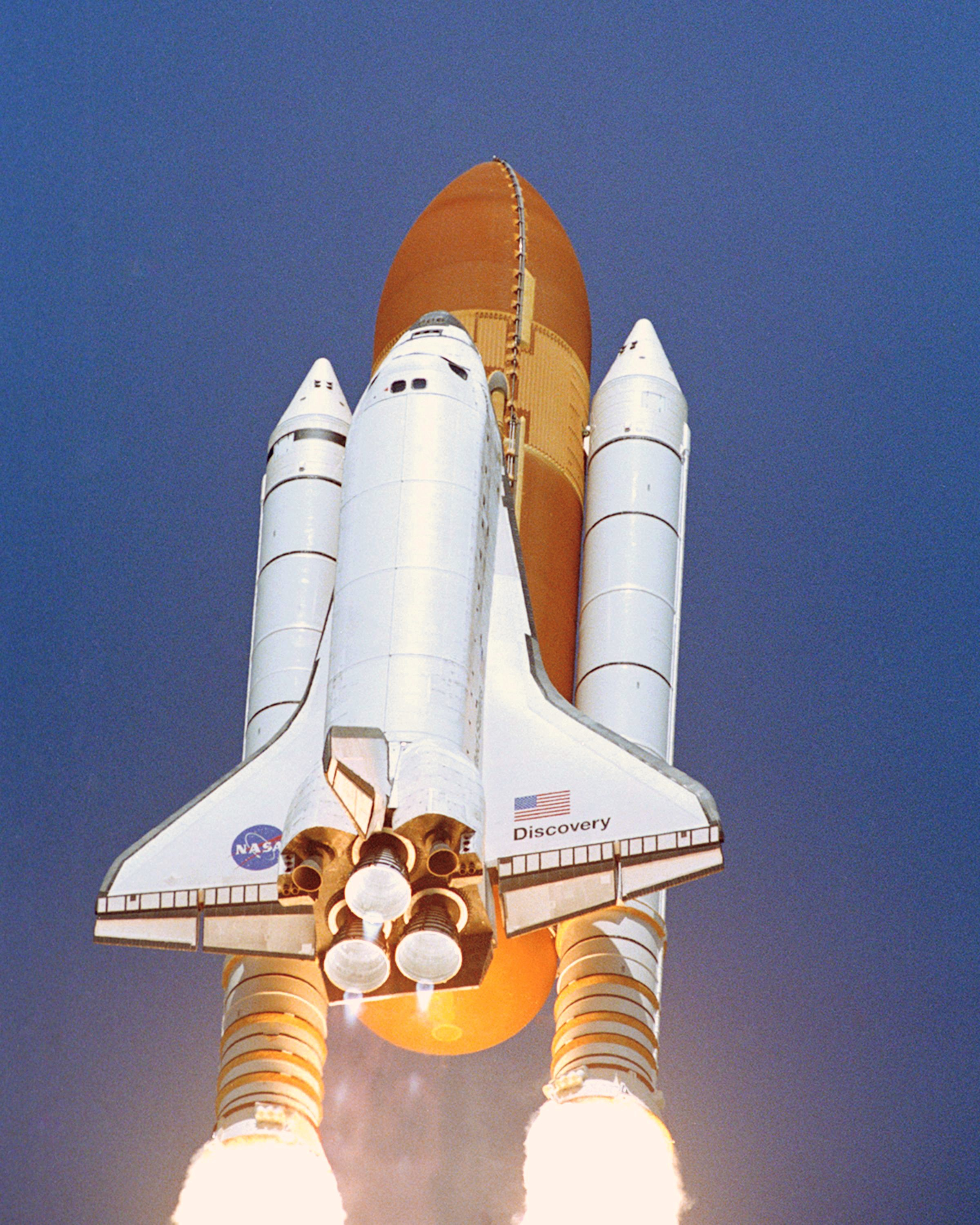 A tracking camera on Launch Pad 39B captures a closeup of Space Shuttle Discovery moments after liftoff on the historic Return to Flight mission STS-114. The liftoff occurred at 10:39 a.m. EDT. On this mission to the International Space Station the crew will perform inspections on-orbit for the first time of all of the Reinforced Carbon-Carbon (RCC) panels on the leading edge of the wings and the Thermal Protection System tiles using the new Canadian-built Orbiter Boom Sensor System and the data from 176 impact and temperature sensors. Mission Specialists will also practice repair techniques on RCC and tile samples during a spacewalk in the payload bay. During two additional spacewalks, the crew will install the External Stowage Platform-2, equipped with spare part assemblies, and a replacement Control Moment Gyroscope contained in the Lightweight Multi-Purpose Experiment Support Structure. The 12-day mission is expected to end with touchdown at the Shuttle Landing Facility on Aug. 7.